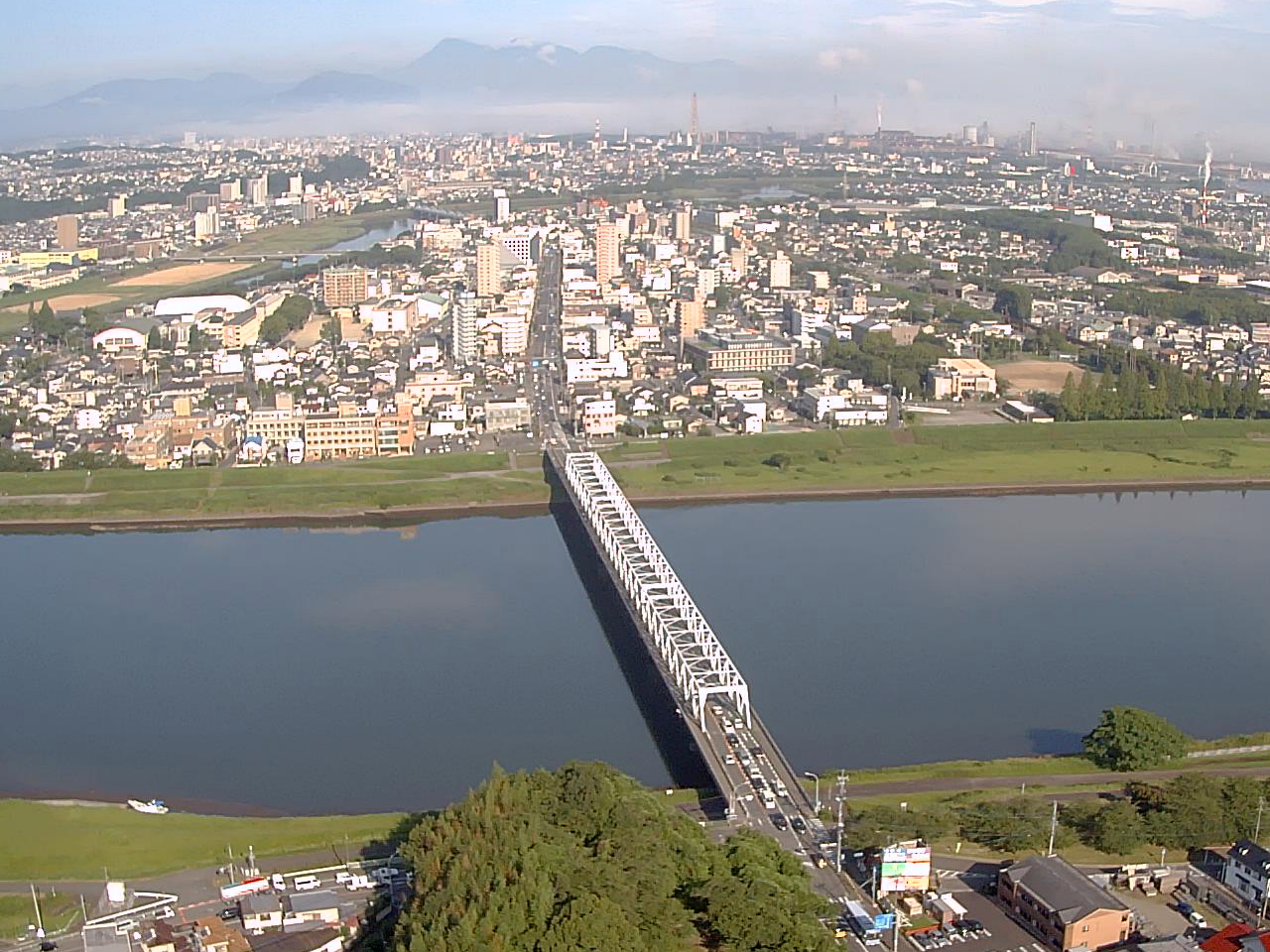 Tsurusaki Bridge